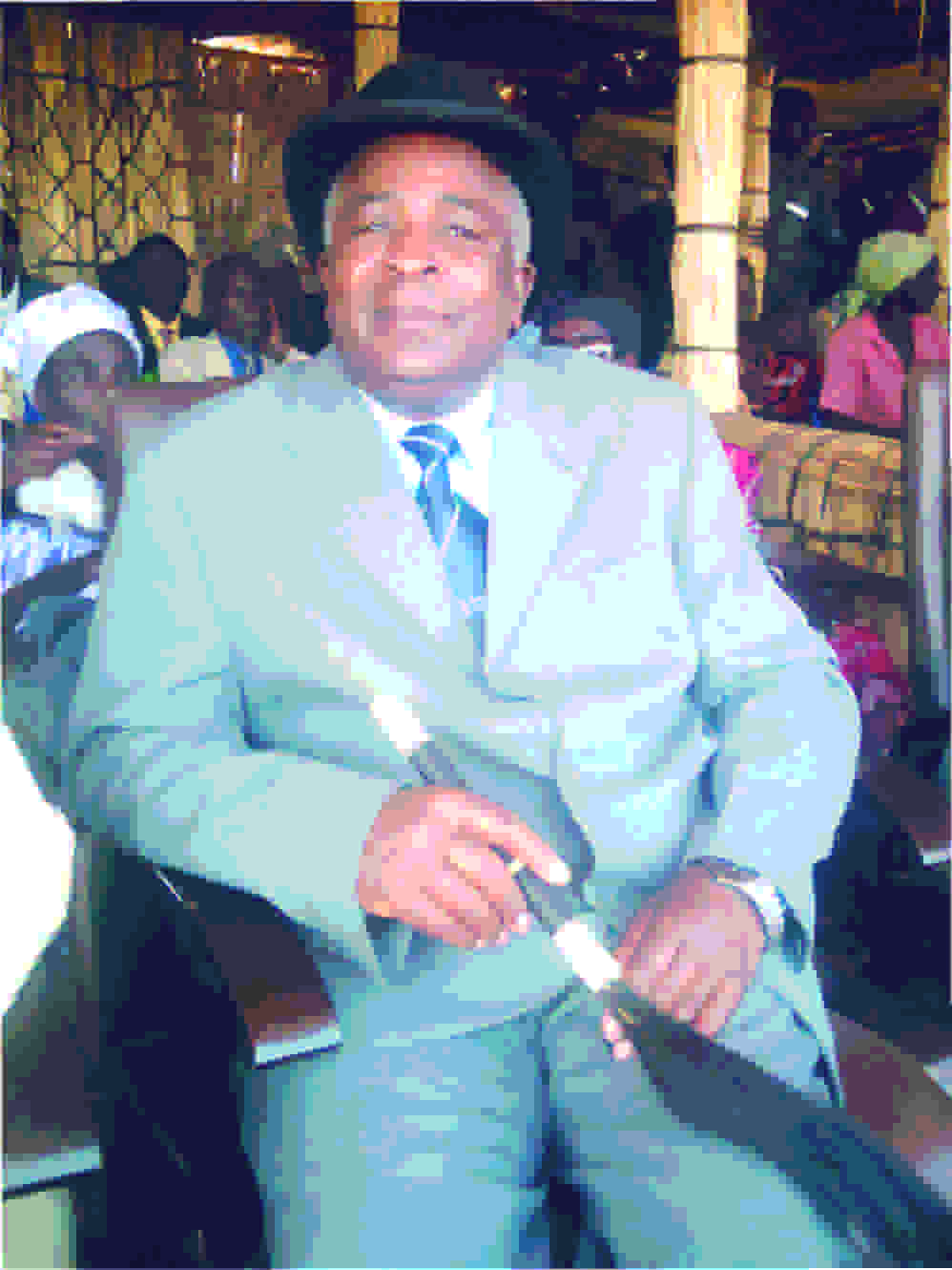 Chief Mwene Chiyengele Nyumbu Josaih at the coronation of the 23rd Mbunda Monarch and restoration of the Mbunda Kingdom in Lumbala Nguimbo, Moxico, Angola